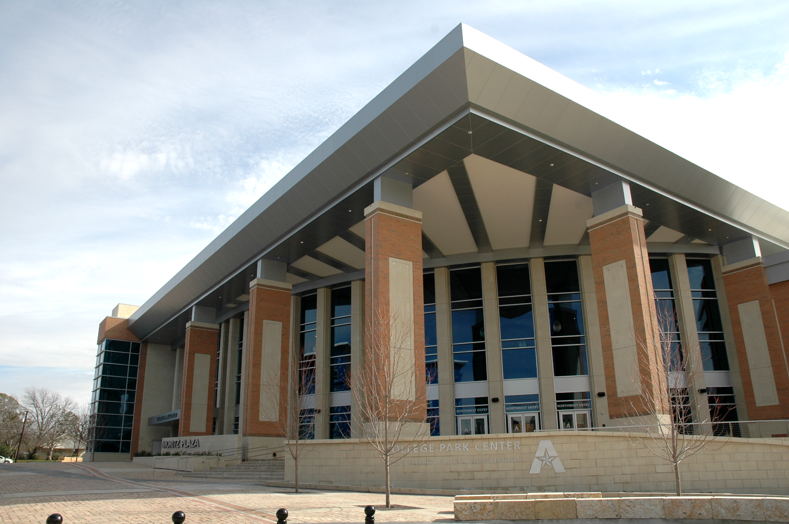 A photograph of the northwest side of the UT Arlington College Park Center.